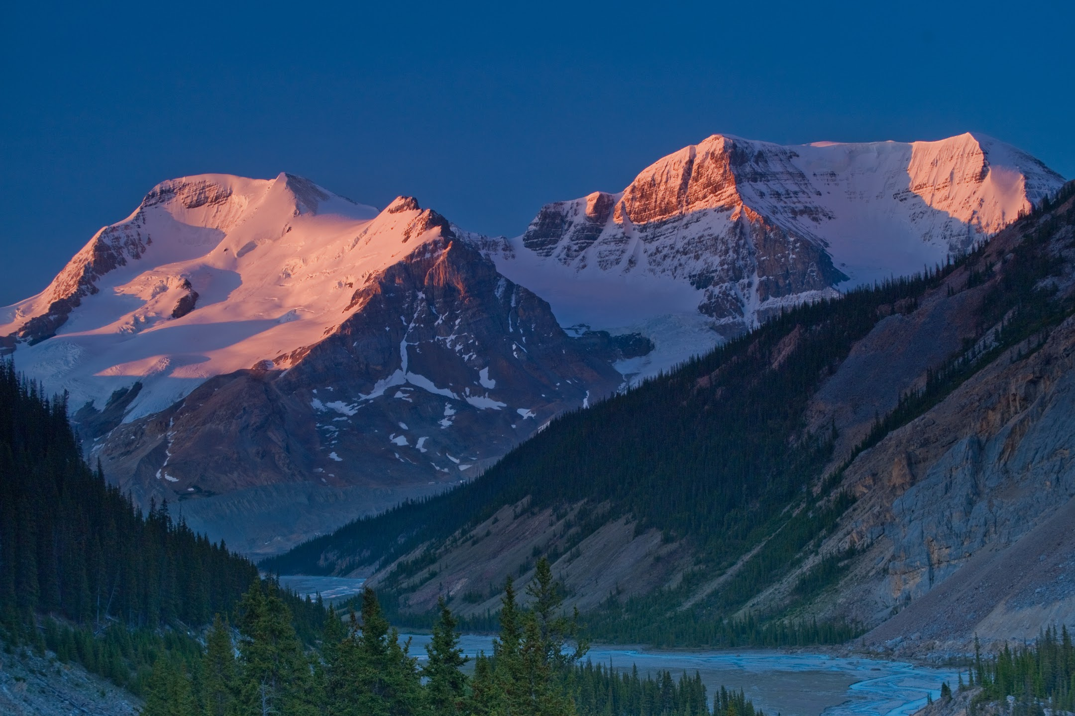 Mounts Athabasca and Andromeda in the early morning as seen from a long Icefields Parkway turnout some 7-8 km (4.3-5 mi) NW of the Columbia Icefields Discovery Centre. Strategically-placed turnouts are all along the parkway and help with viewing and photography.